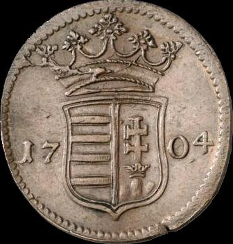 10 poltura coin, Hungary, Francis II Rákóczi (1704, without mintmark) obverse [Huszár: 1535; Unger: 1133.a]